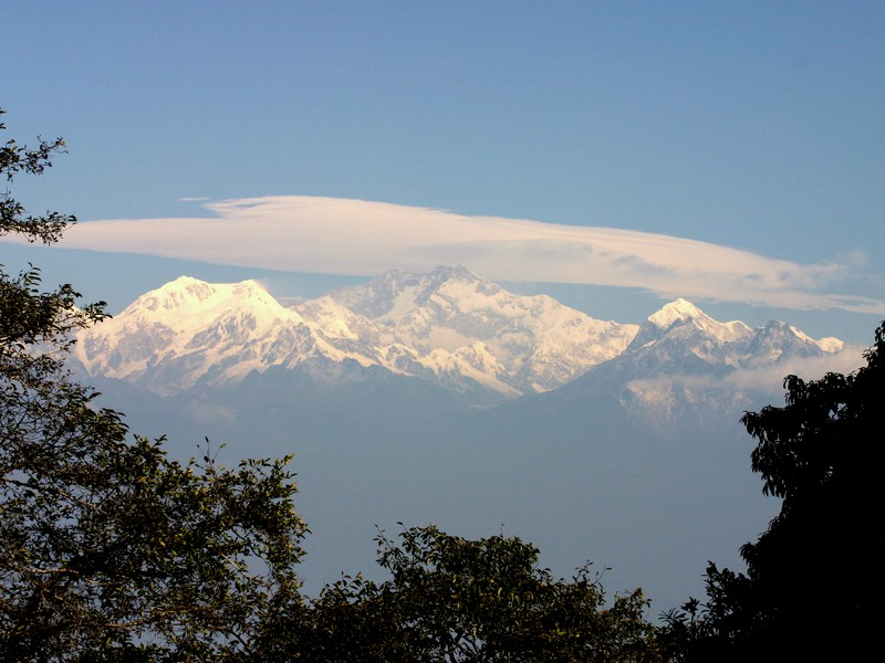 This image was captured by me from my trip to Darjeeling, the beautiful hill station in West Bengal, India